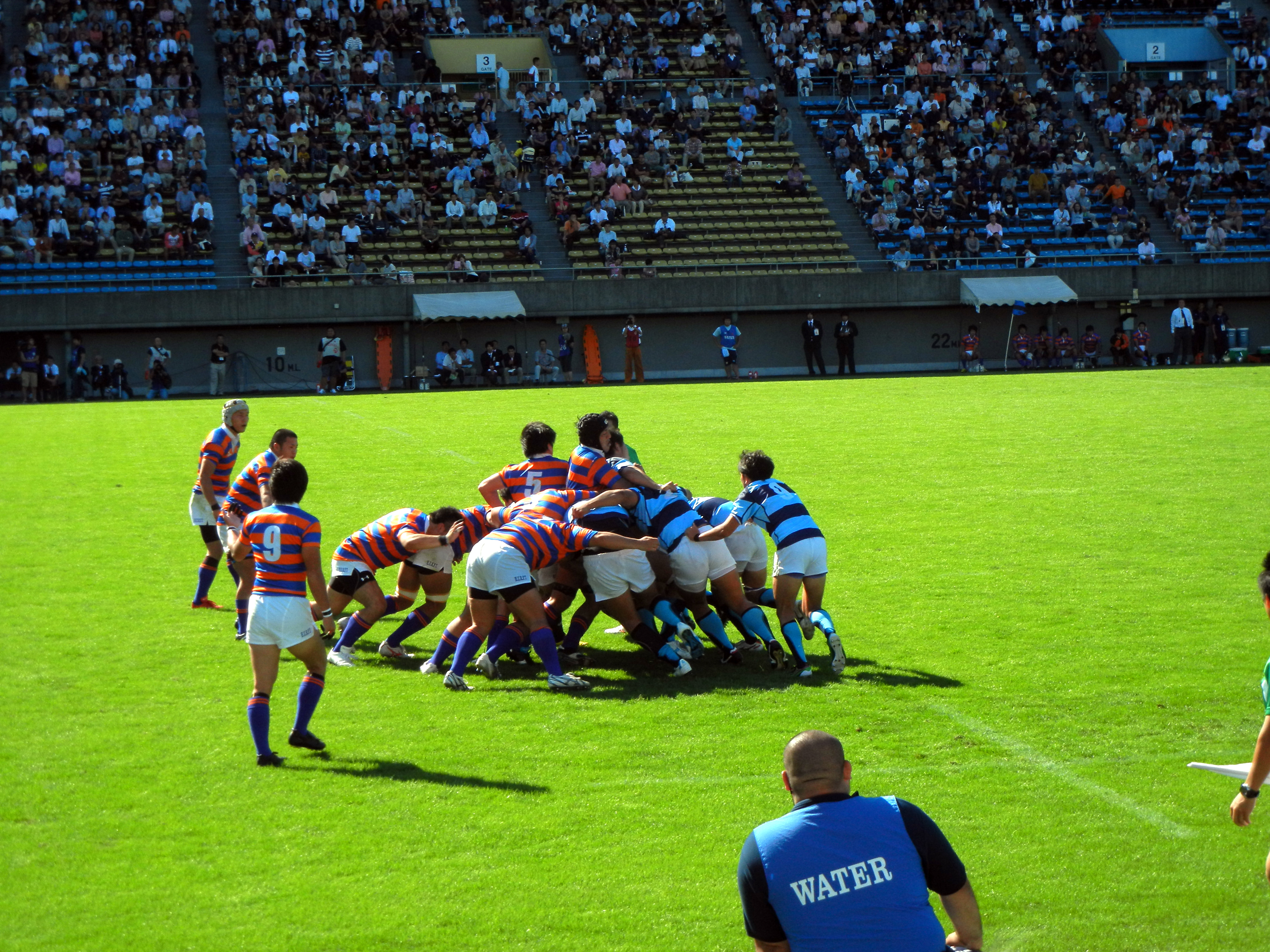 Hosei University vs Kanto Gakuin University